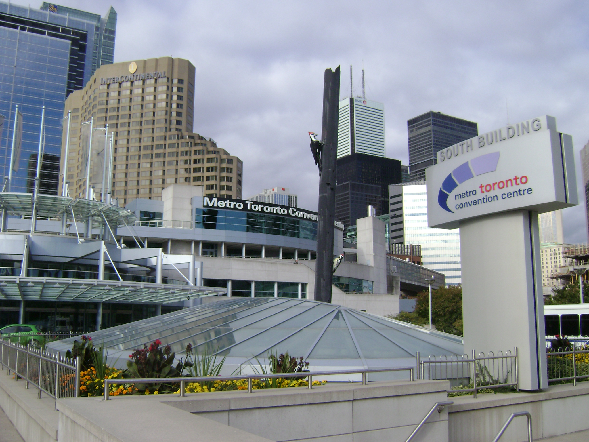 Metro Toronto Convention Centre, in Toronto, Ontario, Canada.